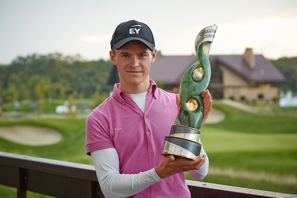 Dominant Daan Huizing claims Dutch double in Kharkіv - Challenge Tour